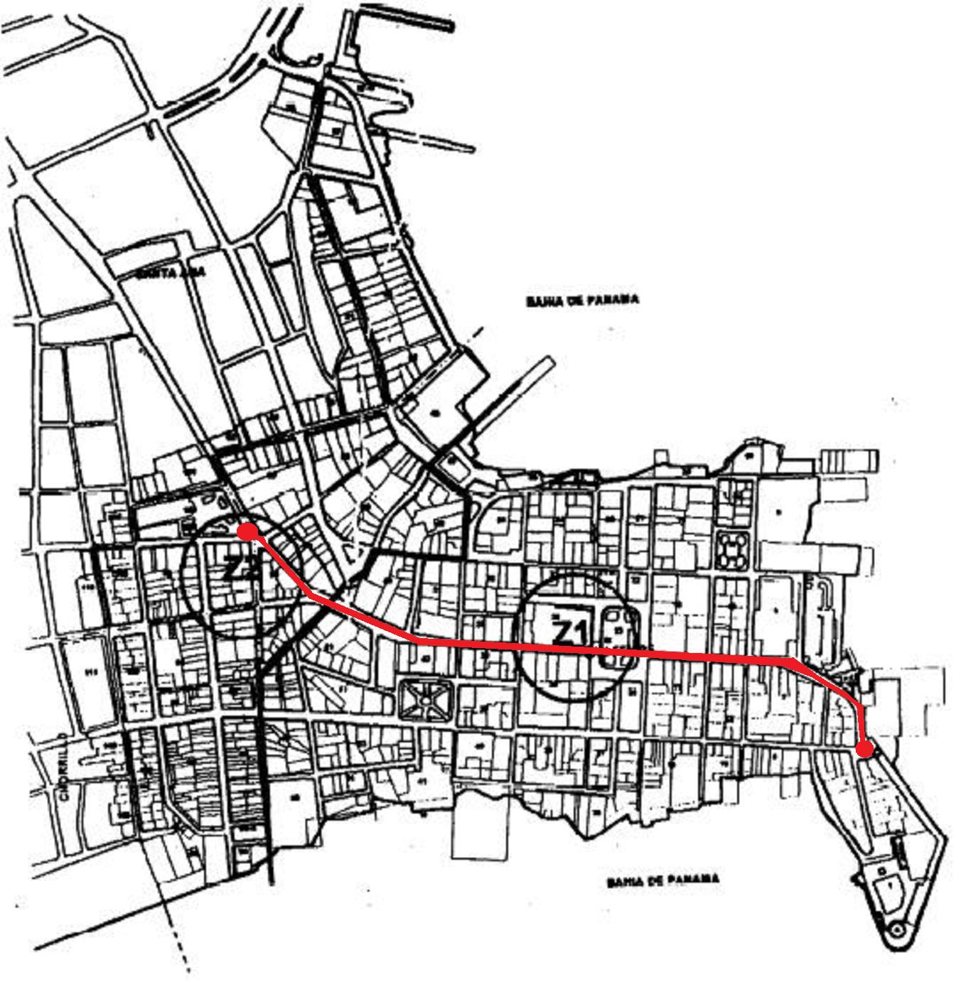 Trace from San Felipe to Santa Ana Plaza of the commonly known main avenue in Panama, Avenida Central.